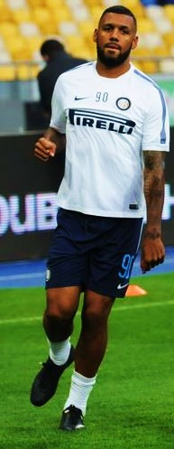 Yann M'Vila